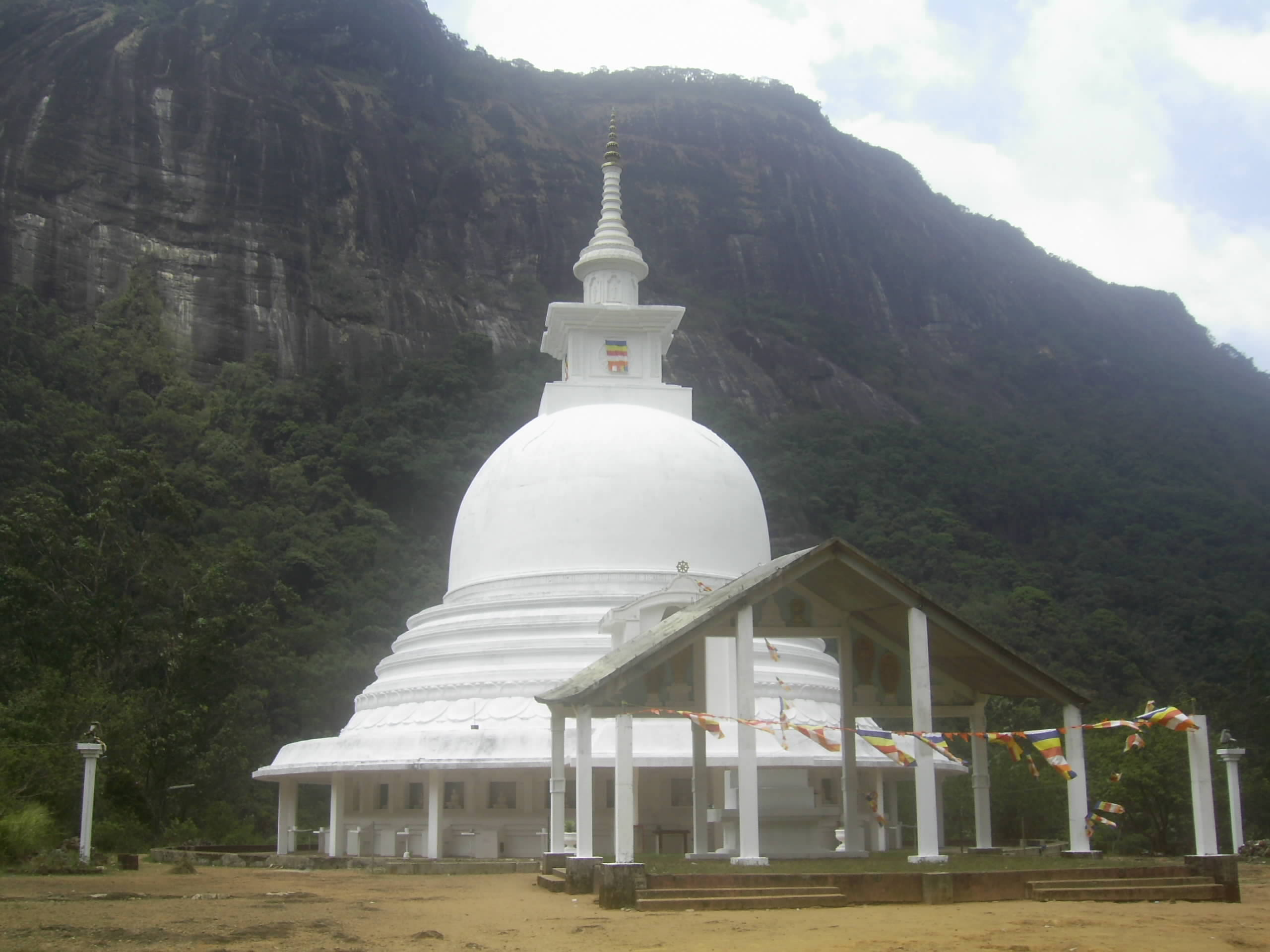 Peace Pagoda, Adam's Peak